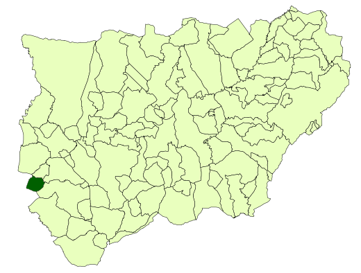 Situation of the municipality of Santiago de Calatrava (Jaén, Spain).